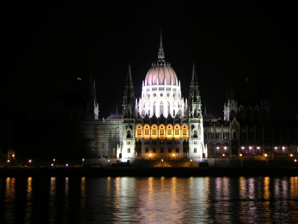 Hungarian Parliament house illuminated, Budapest, Hungary